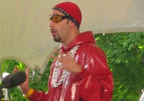 Cropped version of Image:AliG-Harv.jpg (photographer Sj) Dr Zak 14:35, 5 July 2006 (UTC)